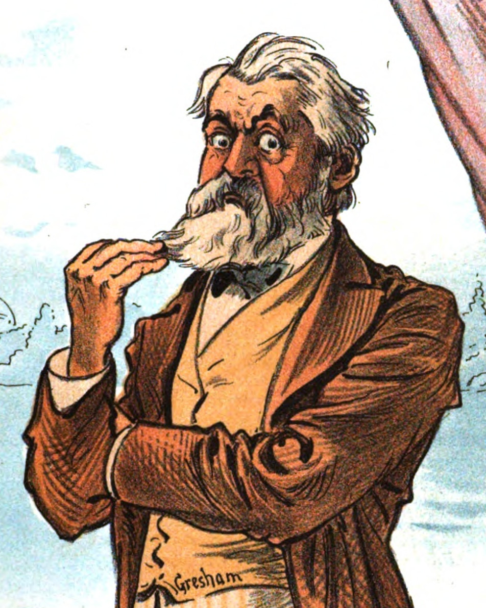 "His Little Hawaiian Game Checkmated". Uncle Sam and Grover Cleveland are playing chess with pieces representing the U.S. Senators and Queen Liliʻuokalani. Caption: Uncle Sam: "Grover this game has been too deep for you. Every move you've made has been a blunder, and now you've lost your Black Queen and the game.